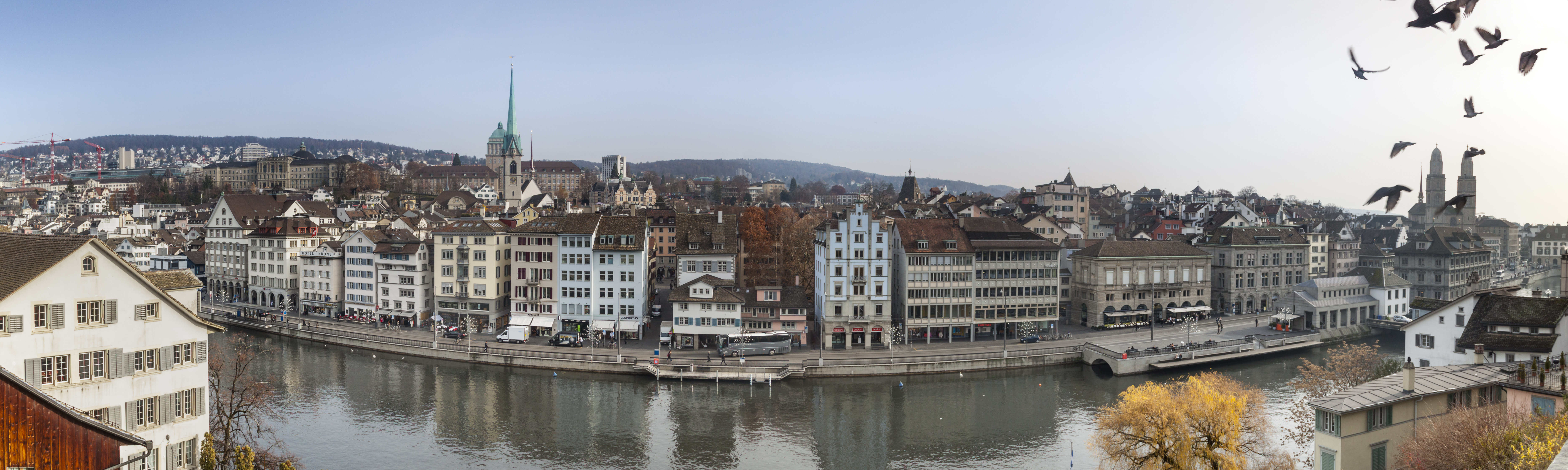 4-short panorama of the central part of Zürich as seen from Lindenhof hill.